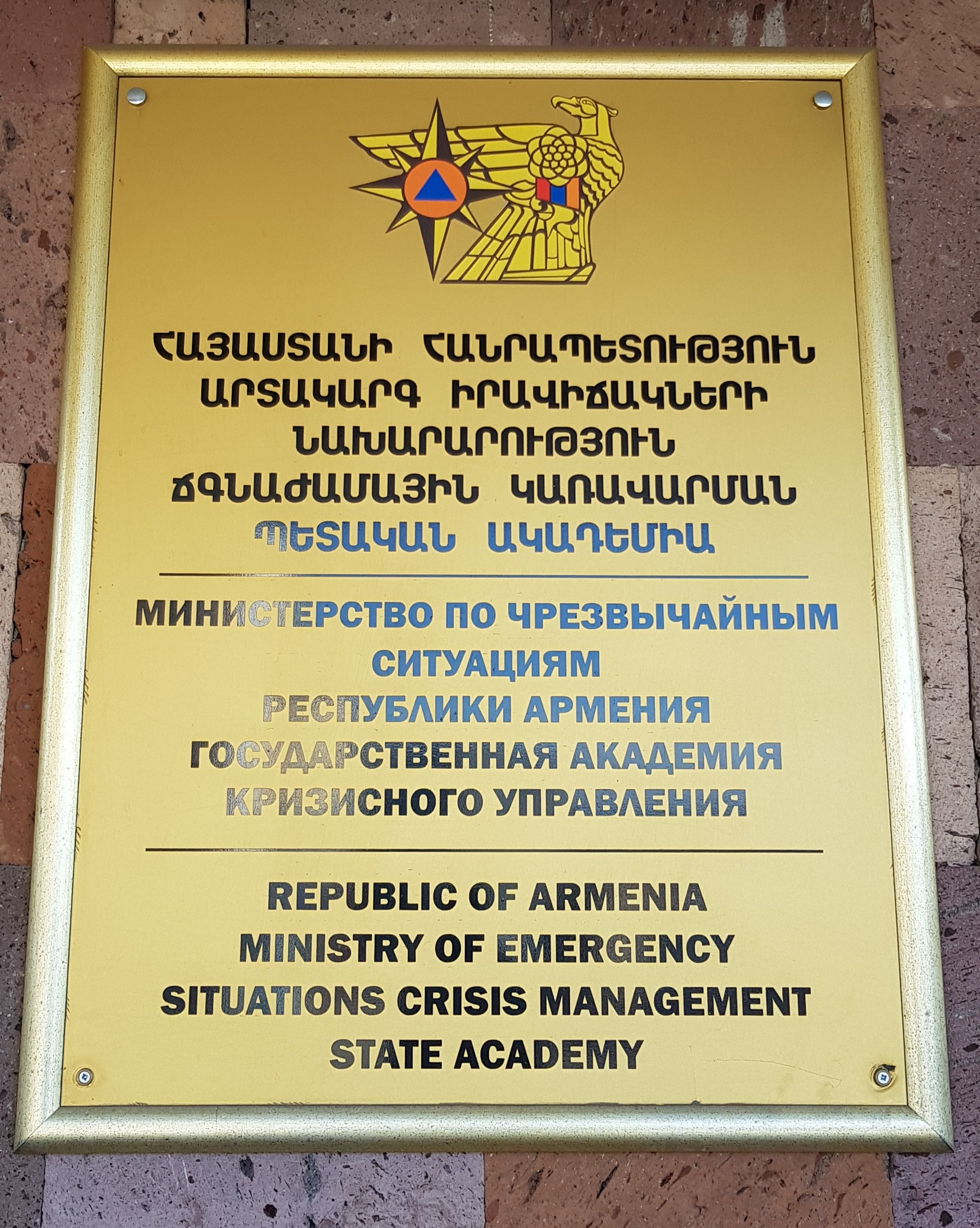 Plaque at the entrance of Crisis Management State Academy